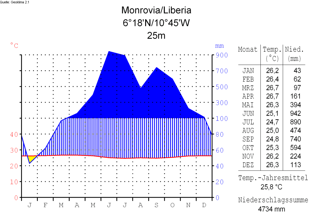 climate chart in the format by Walter and Lieth, metric, °Celsisus and millimeters, made with Geoklima 2.1